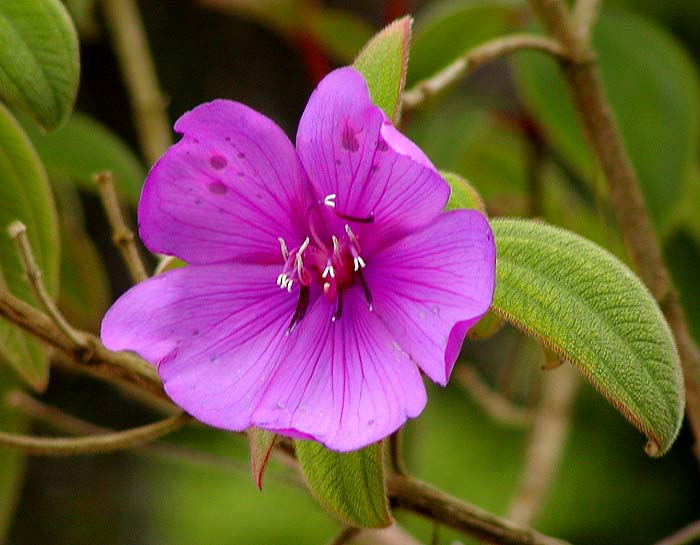 Photo of Tibouchina semidecandra at the San Francisco Botanical Garden